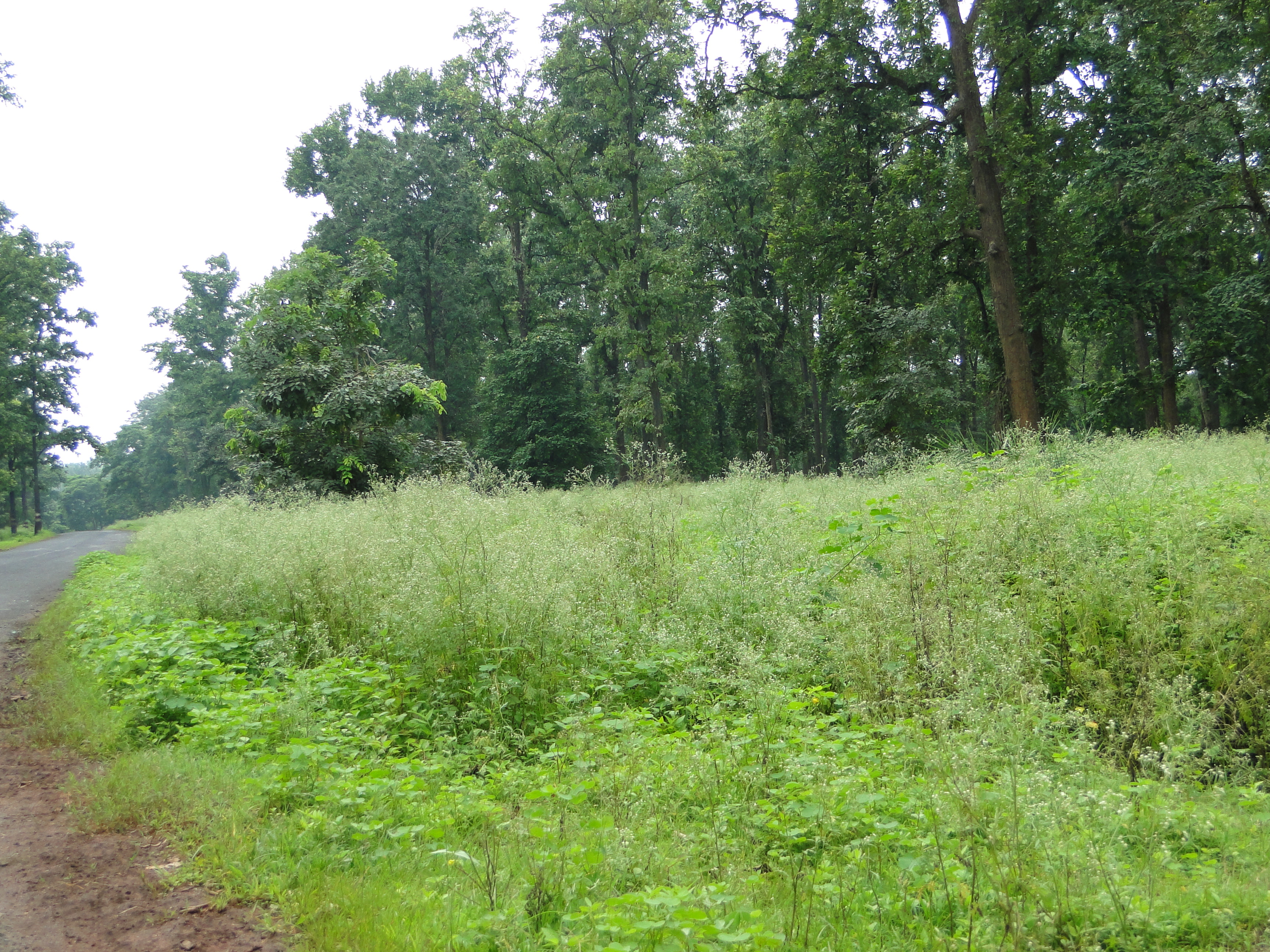 Allergy weed Parthenium hysterophorus is spreading like wild fire in Achanakmar Wildlife Sanctuary (Achanakmar Tiger Reserve), Chhattisgarh, India. This picture was taken in core zone of the sanctuary where this rampant infestation is becoming curse for wildlife as well as Tourists. Unfortunately no effort is in progress to manage this obnoxious alien invasive species in the Sanctuary.